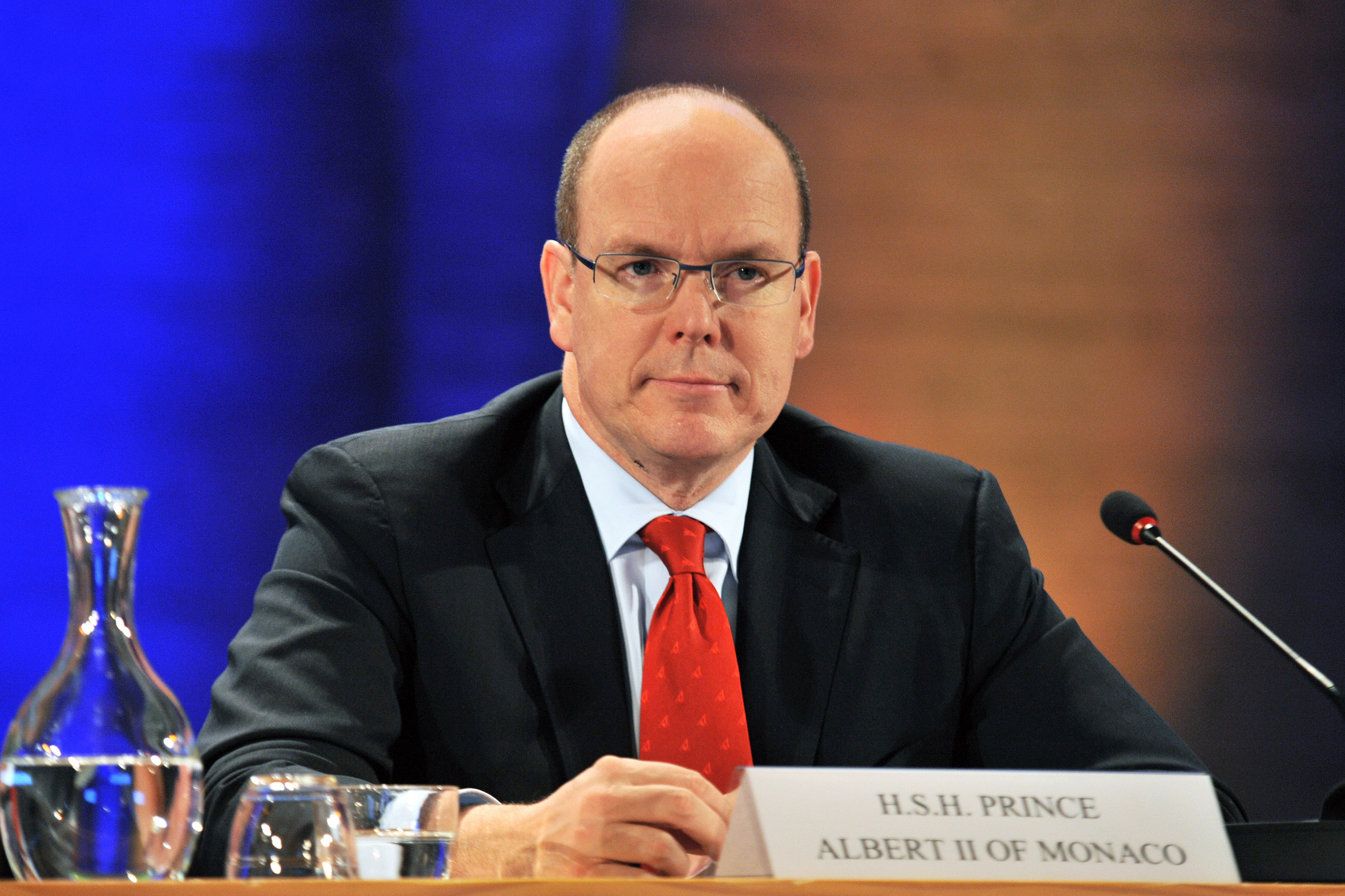 UNESCO Headquarters, Paris : on 3 May 2010, H.S.H. Prince Albert II of Monaco, participated in the 5th Global Conference on Oceans, Coasts and Islands.